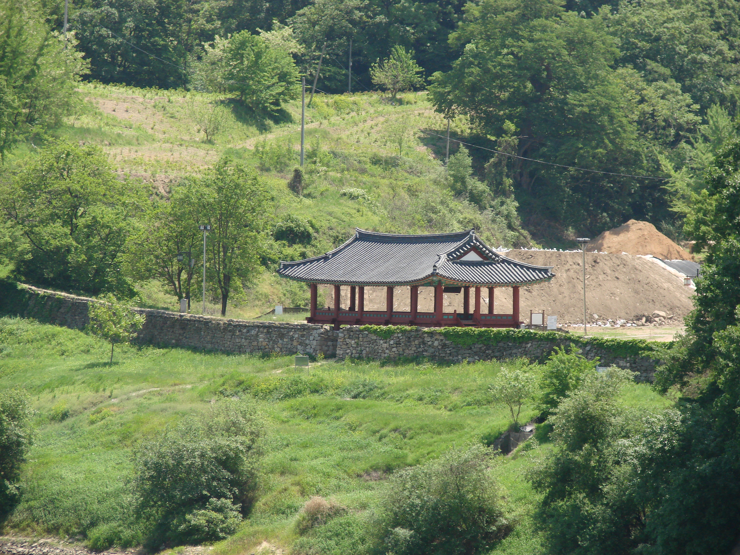 Pavilion at Gongsanseong in Gongju, South Korea.